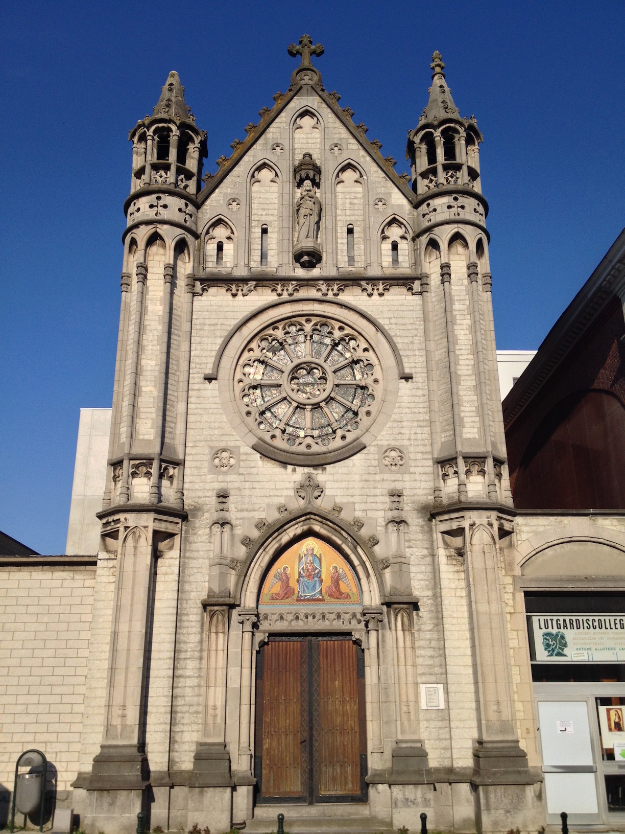 Chapel Champagnat in Auderghem